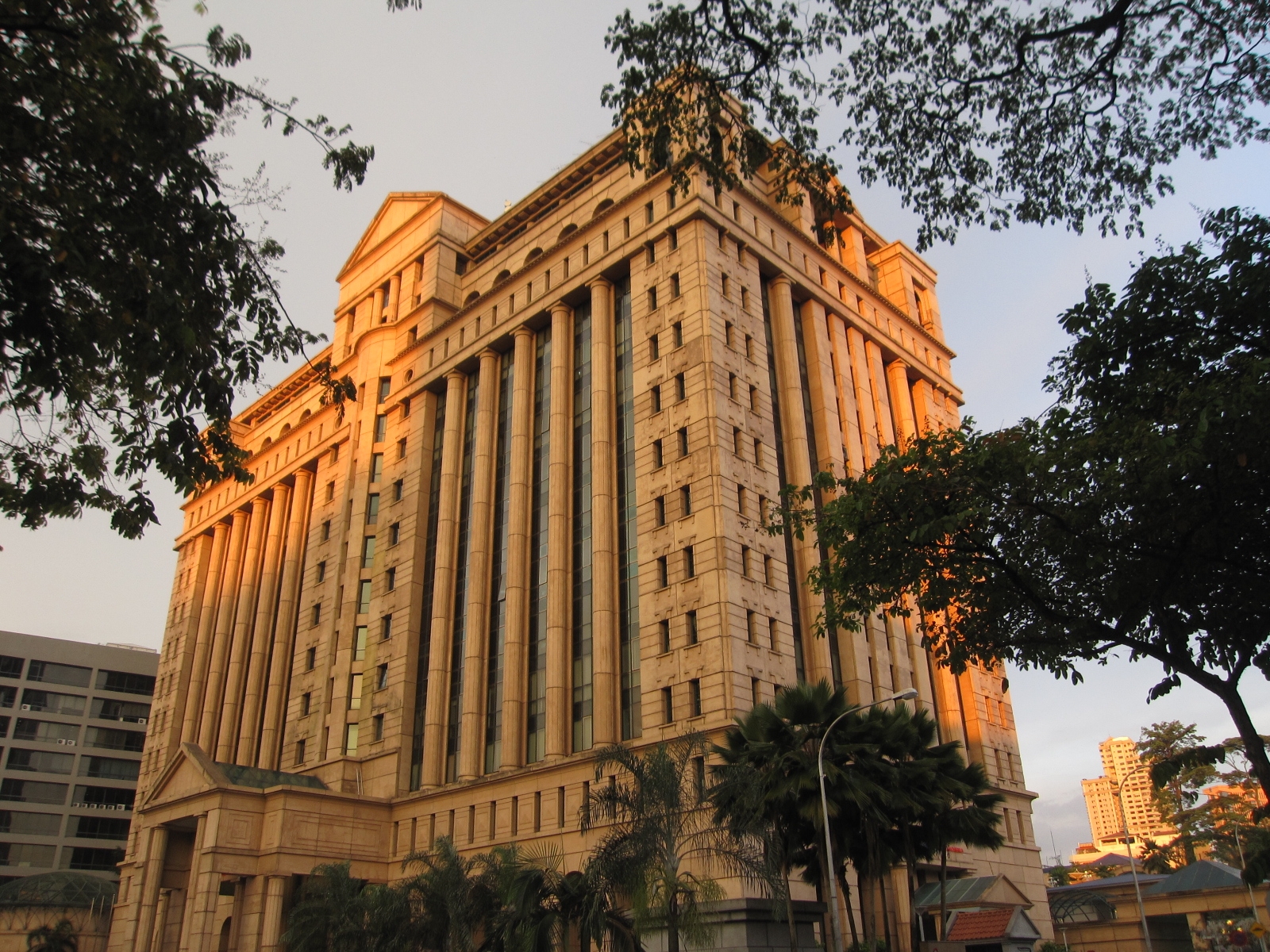 The building of the Malaysian Stock exchange viewed from Persiaran Maybank